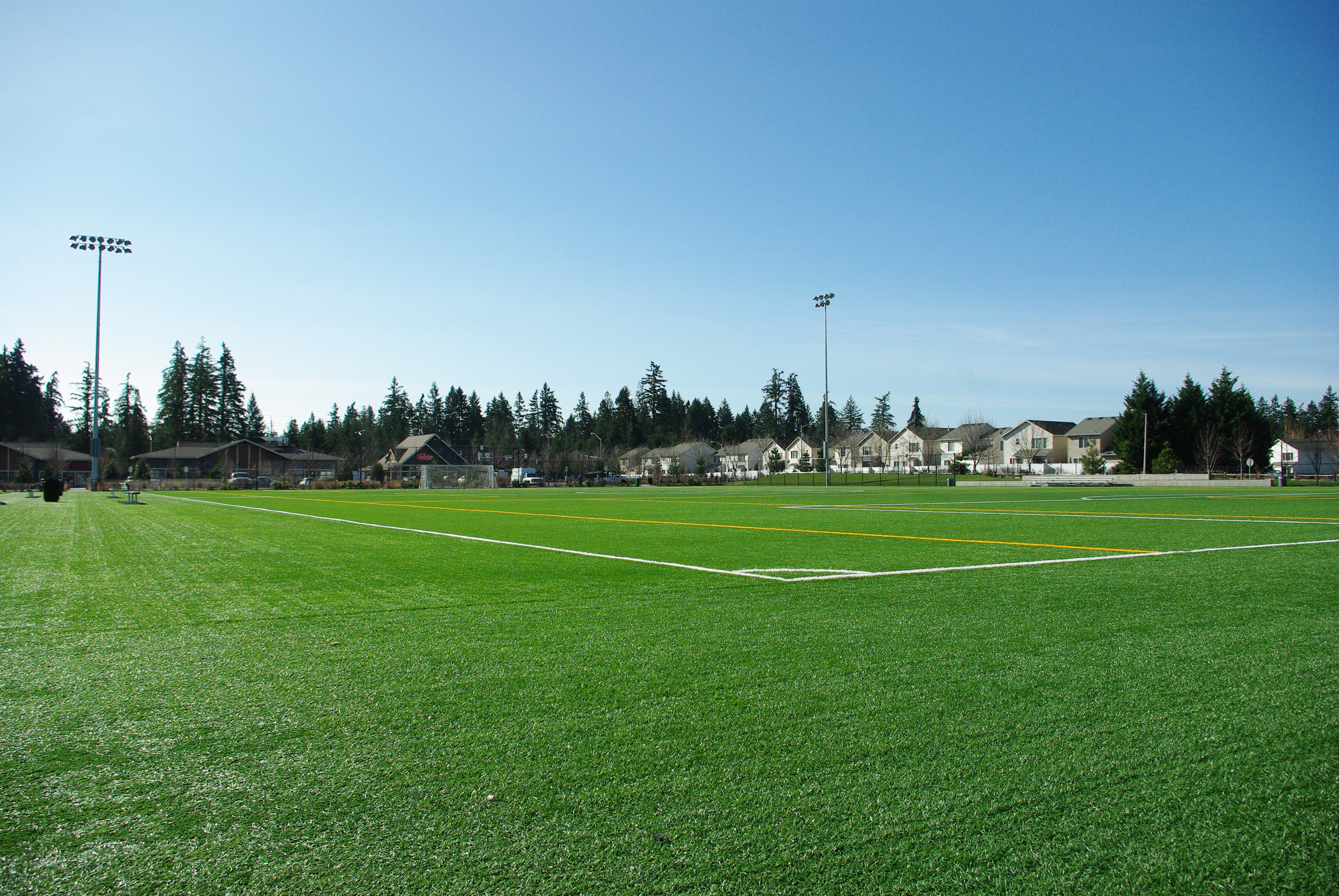 Athletic field at w:53rd Avenue Park in Hillsboro, Oregon.